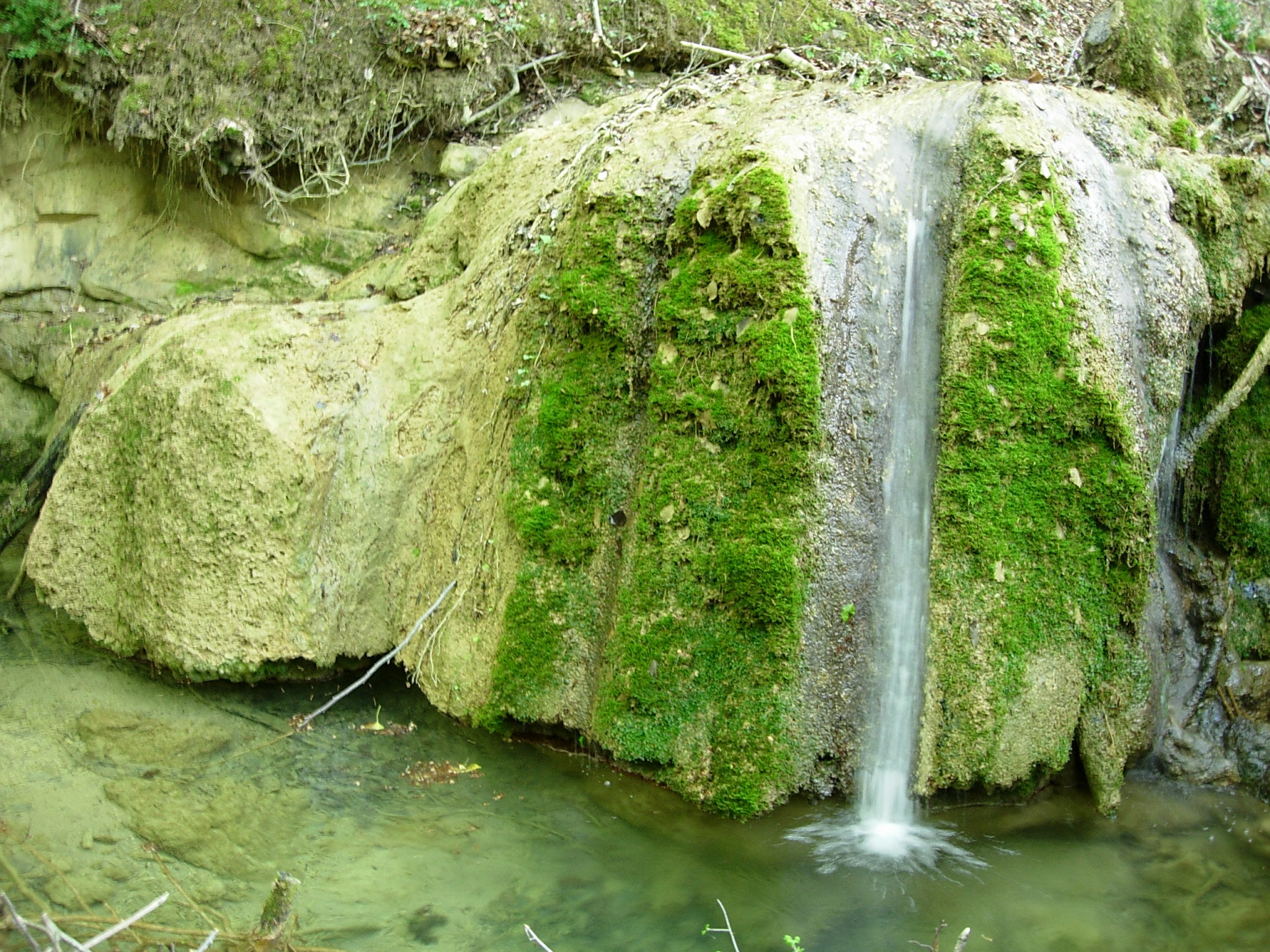 Moss assimilates its carbon dioxide by accelerating the precipitation in carbonite saturated Karst water. The moss’ sequence of crustification and growth produces a very porous lightweight calc-tufa, which is growing and hanging over.